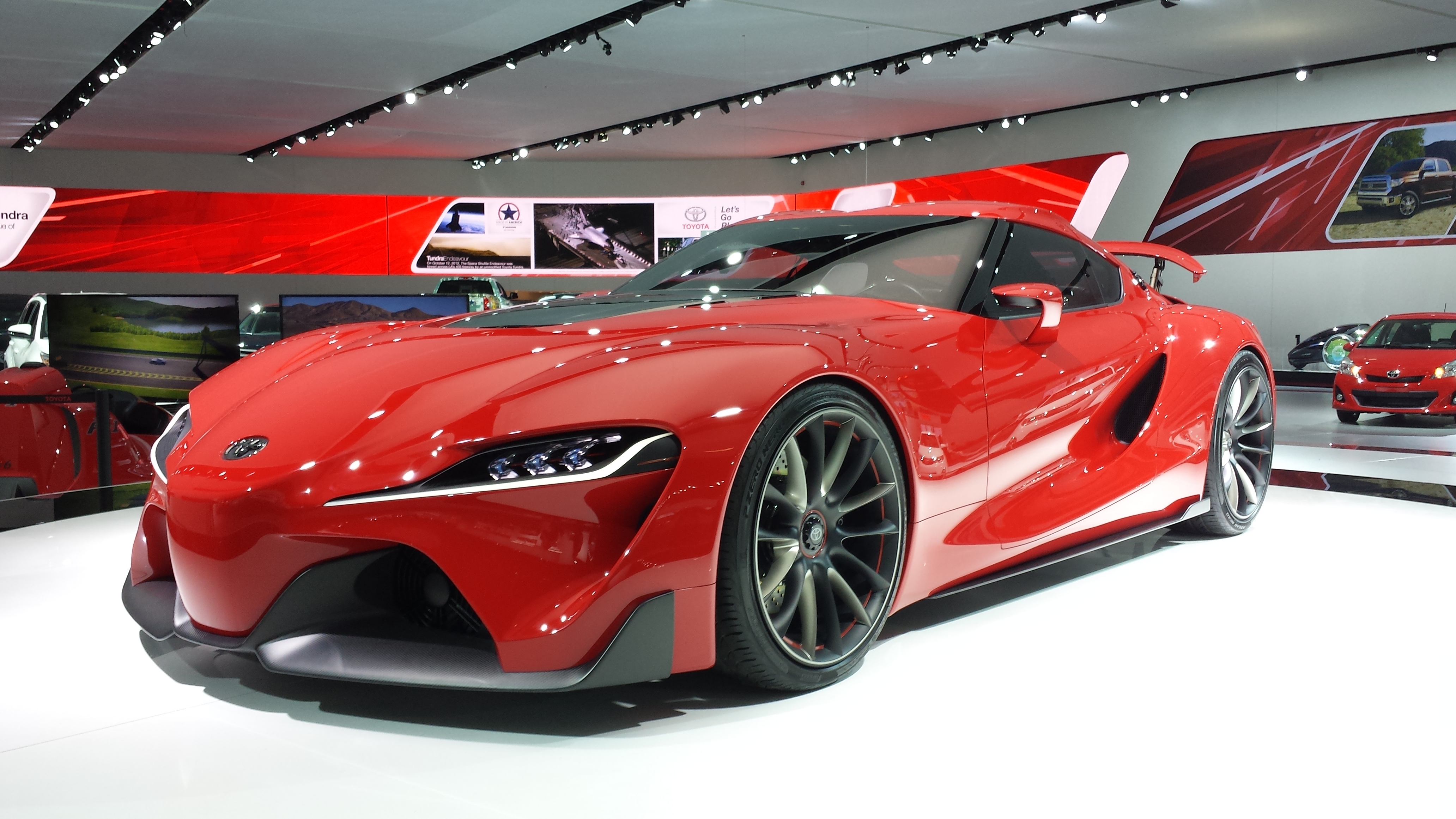 The cockpit’s wraparound windshield and side glass openings are a distinct nod to the design of the legendary Toyota 2000GT.